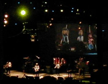 Beck plays at the Sasquatch Music Festival in George, Washington. The screens show puppets that emulated the band throughout the show.